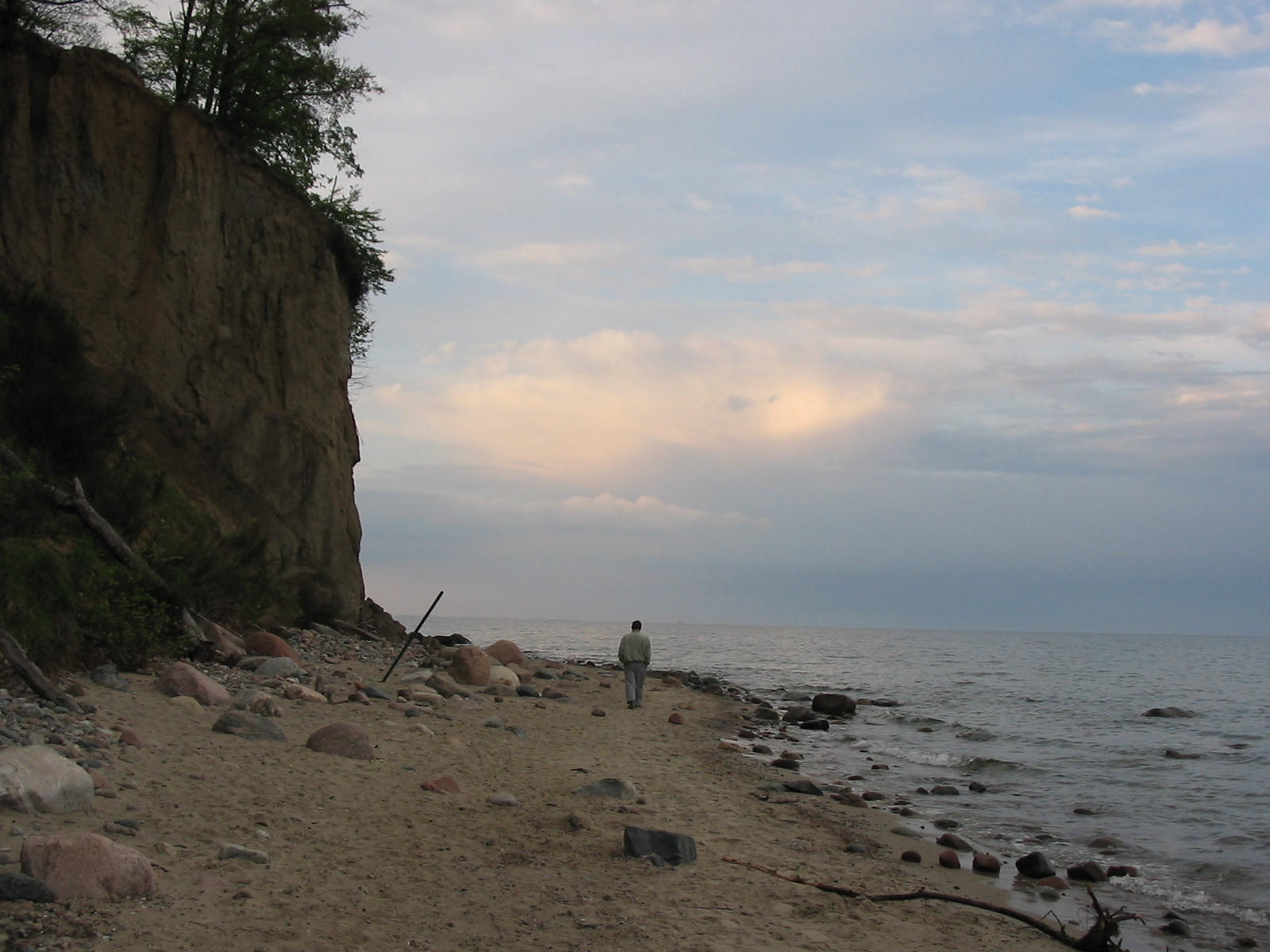 cliff, beach, Baltic Sea, Gdynia, Poland